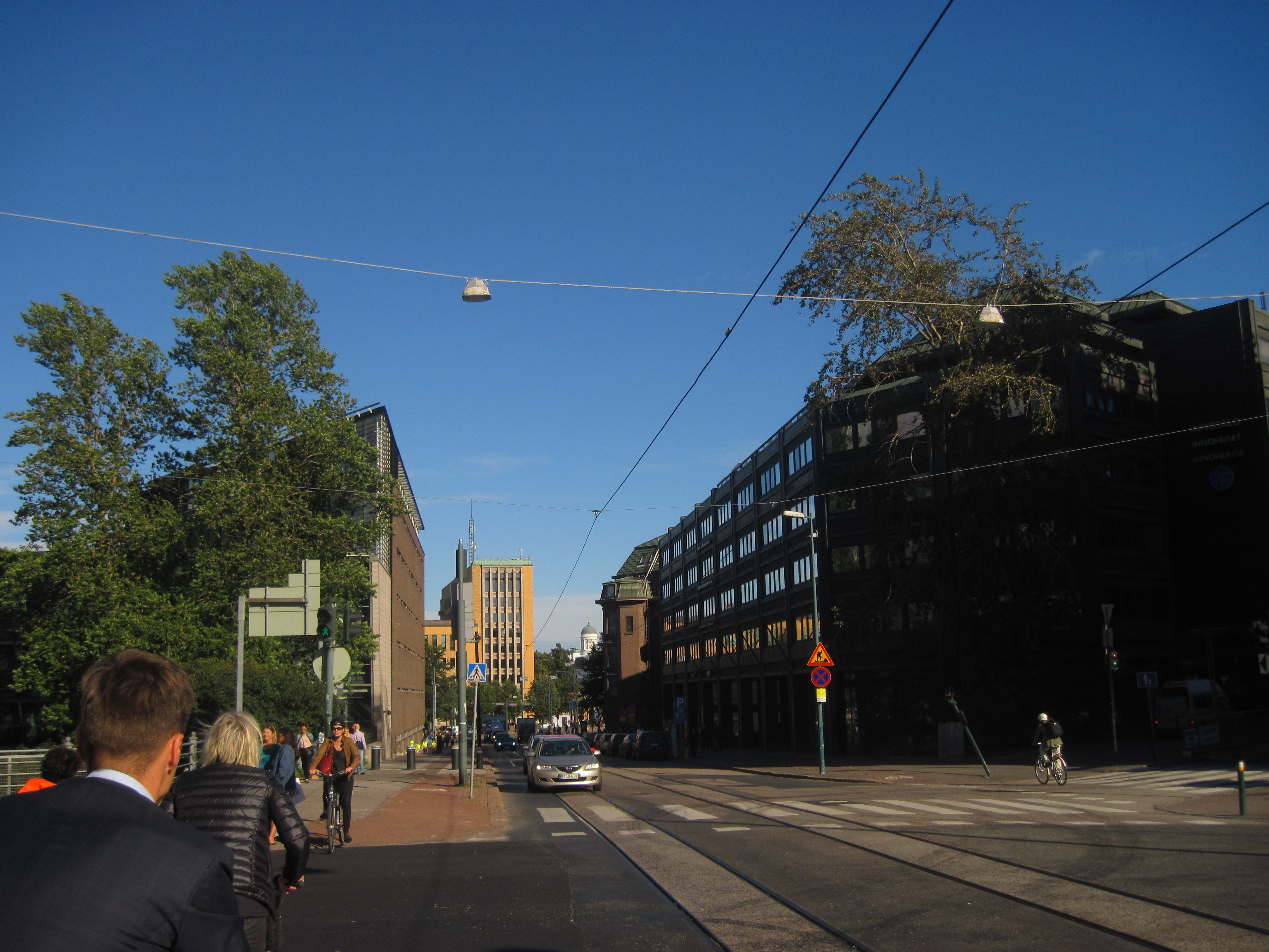 Easternmost part of Arkadiankatu in Helsinki